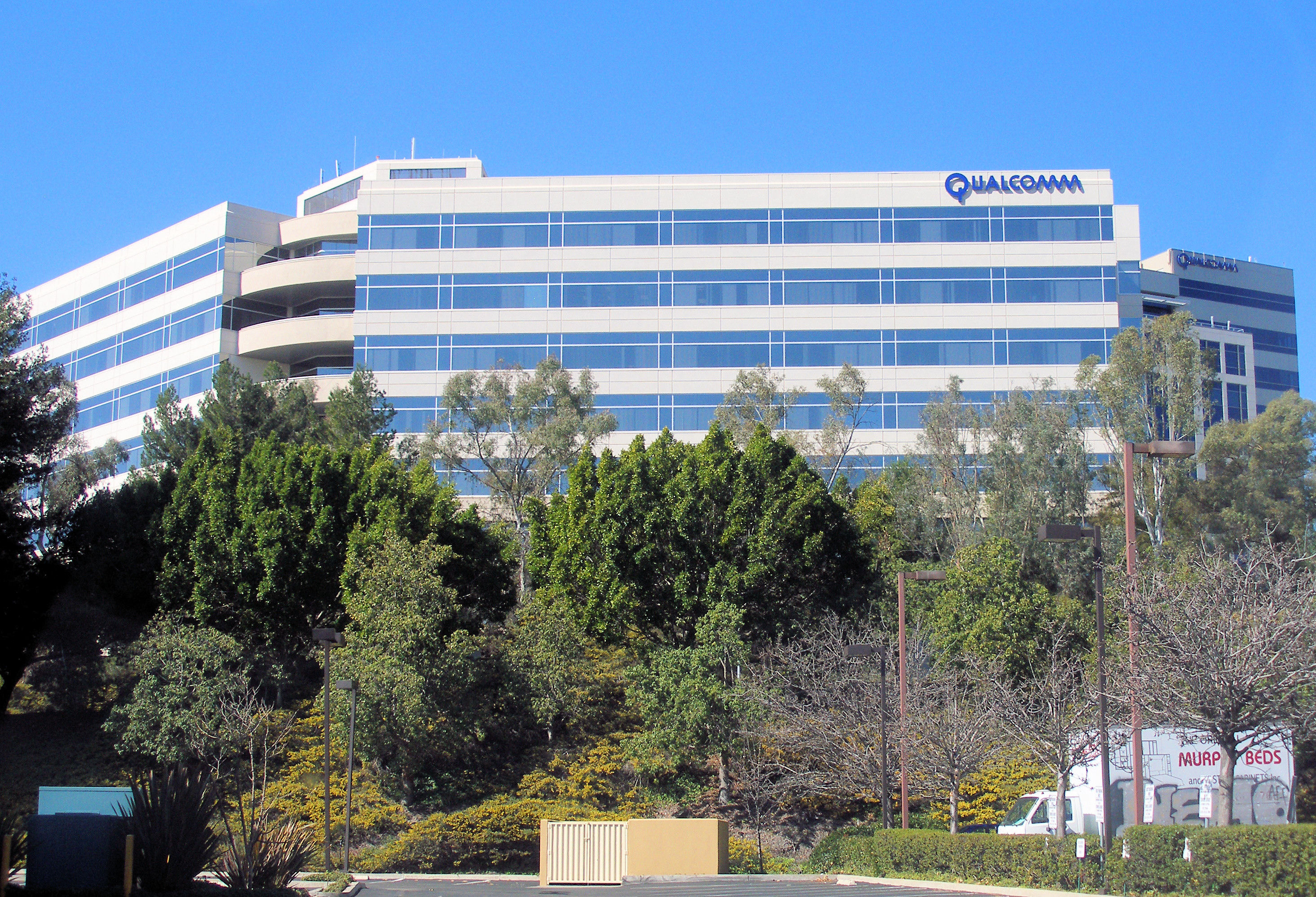 Qualcomm headquarters in San Diego.